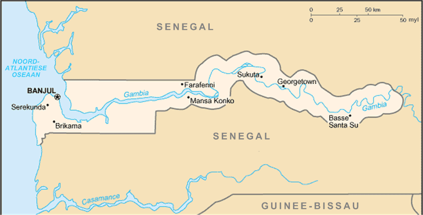 An Afrikaans map of Gambia.